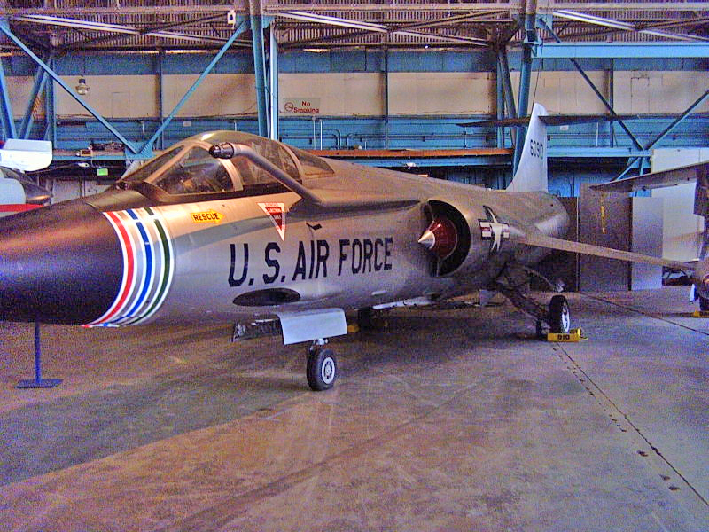 Lockheed F-104C Starfighter at Wings Over the Rockies Air and Space Museum, Denver Service History Aircraft no. 56-910 delivered to USAF January 6, 1958 Jan 59 -- 479th Tactical Fighter Wing (TFW), Tactical Air Command (TAC), George AFB, CA Deployed Aug 60 - Sep 60 -- Moron AB Spain and again Aug 61 - Sep 61 -- Moron AB May 66 -- 8th TFW Pacific Air Forces Command, Udorn Royal Thai Air Base, Thailand Jun 66 -- 435th TFS Jan 67 -- Sacamento AMA, Air Force Logistics Command, CA Apr 67 -- back to Udorn Aug 67 --156th Tactical Fighter Group, 198th Tactical Fighter Squadron, Puerto Rico ANG Aug 75 -- 140th TFW, Buckley ANG, Denver, CO Sep 75 -- 3400 Technical Training Wing, Lowry Tech. Training Center, Lowry AFB, Denver, CO Apr 82 -- decommissioned, Lowry AFB, Denver c. 84 -- Lowry Heritage Museum. Lowry AFB Dec 94 -- Transfered to Wings Over the Rockies Air & Space Museum, ( Lowry AFB closed) Lowry Campus, Denver CO SOURCE: Maxwell AFB History Office report to Lowry Heritage Museum, now Wings Over the Rockies Air and Space Museum, Denver CO, Collections Dept, aircraft history files.